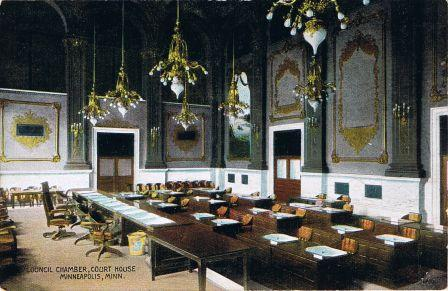 Minneapolis Council Chambers around 1900, located at .